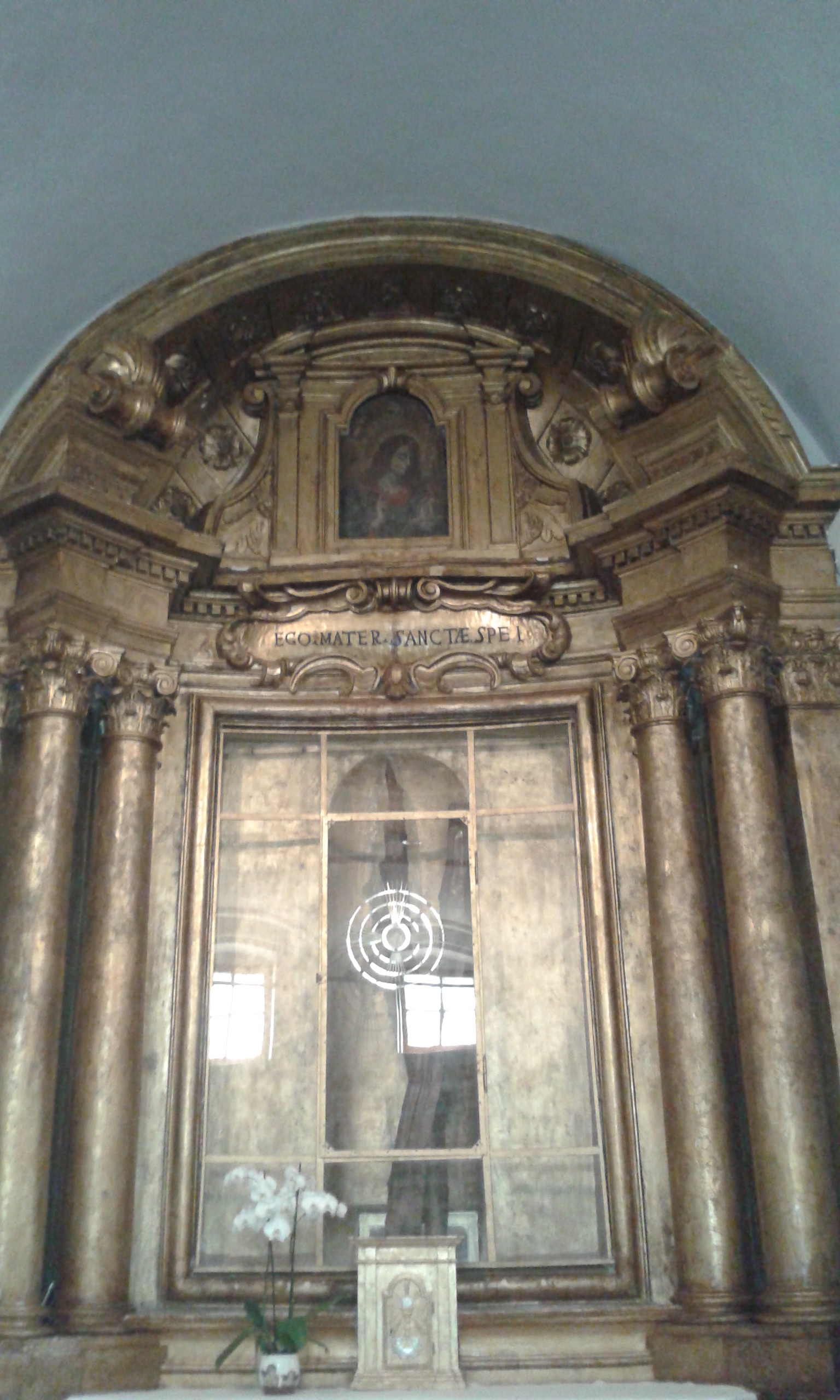 kjkjioiopopooooooooooooo